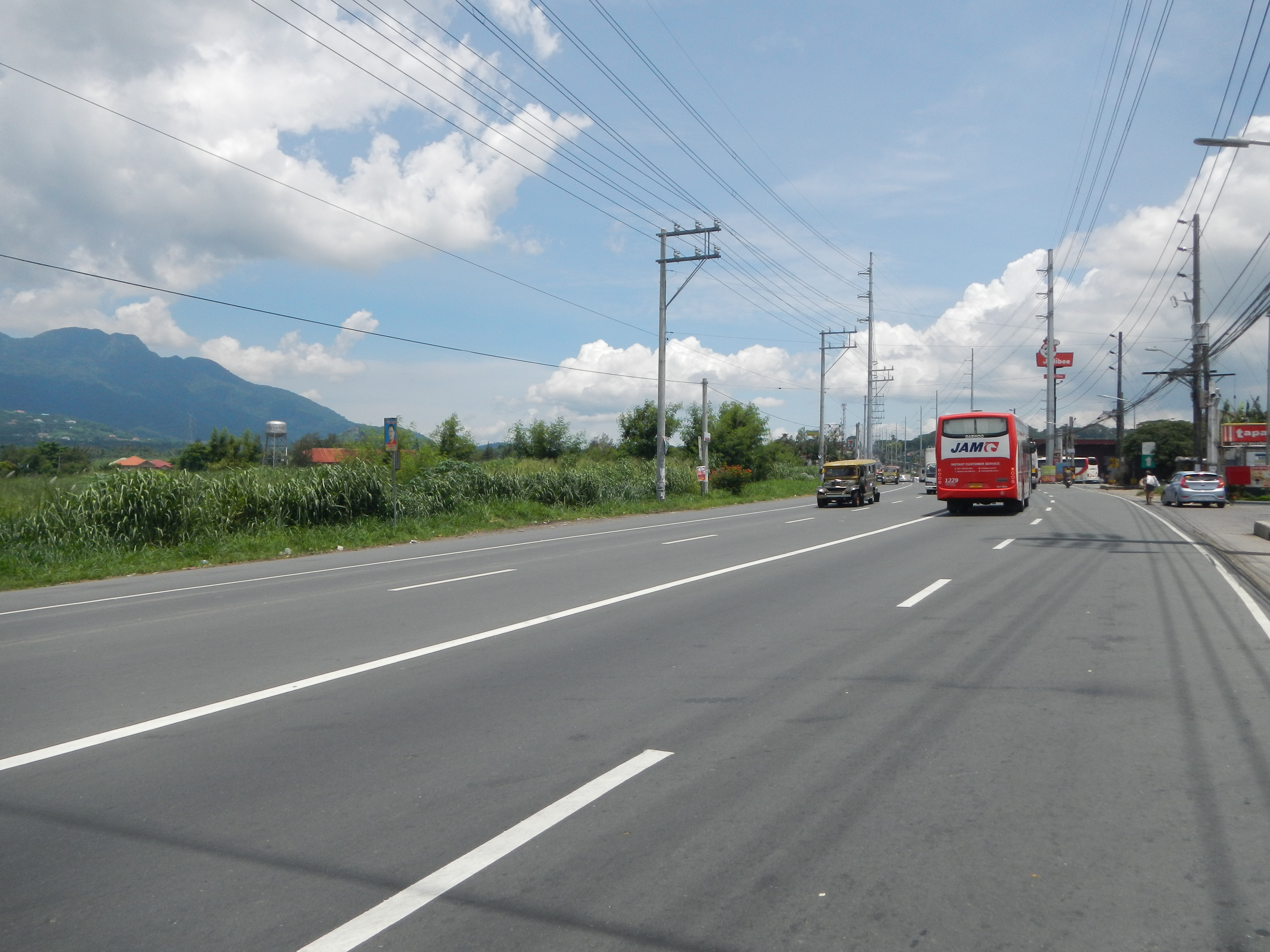 Barangay Turbina [1] Coordinates: 14°11'16"N 121°8'21"E Bus Terminal (Prinza, Calamba City[2] - Pan-Philippine Highway[3]- The Pan-Philippine Highway, also known as the Maharlika "Nobility/Free People" Highway AH26 AH26 is a 3,517 km 2,185 mi network of roads, bridges, and ferry services that connect the islands of Luzon, Samar, Leyte, and Mindanao in the Philippines, serving as the country's principal transport backbone.[4] Maharlika Highway Daang Maharlika) - accessible if entered Exit 50 or Batangas Exit of SLEX. It passes through barangays Turbina, Tulo, and Makiling in Laguna, and continues through Batangas and ends at Lipa City. Along Maharlika Highway are numerous factories, warehouses, and other industrial sites that can be found in Calamba City, Laguna, and Sto. Tomas, Batangas). Mount Makiling [5] --- Turbina Bus Terminal (Prinza, Calamba City)[6] Coordinates: 14°11'4"N 121°8'8"E [7] near SLEX - Calamba (Turbina) Exit[Coordinates: 14°11'34"N 121°8'27"E] Calamba City[8] Calamba, Laguna. (I decided to re-photograph this scenic center of bus transportation, for it is the gateway and only path to Bicol province and other provinces, and the Mountain is blue and clear amid the so bright sun.)